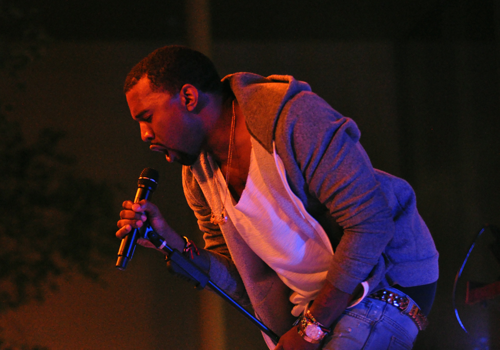 Kanye West performing at The Museum of Modern Art's annual Party